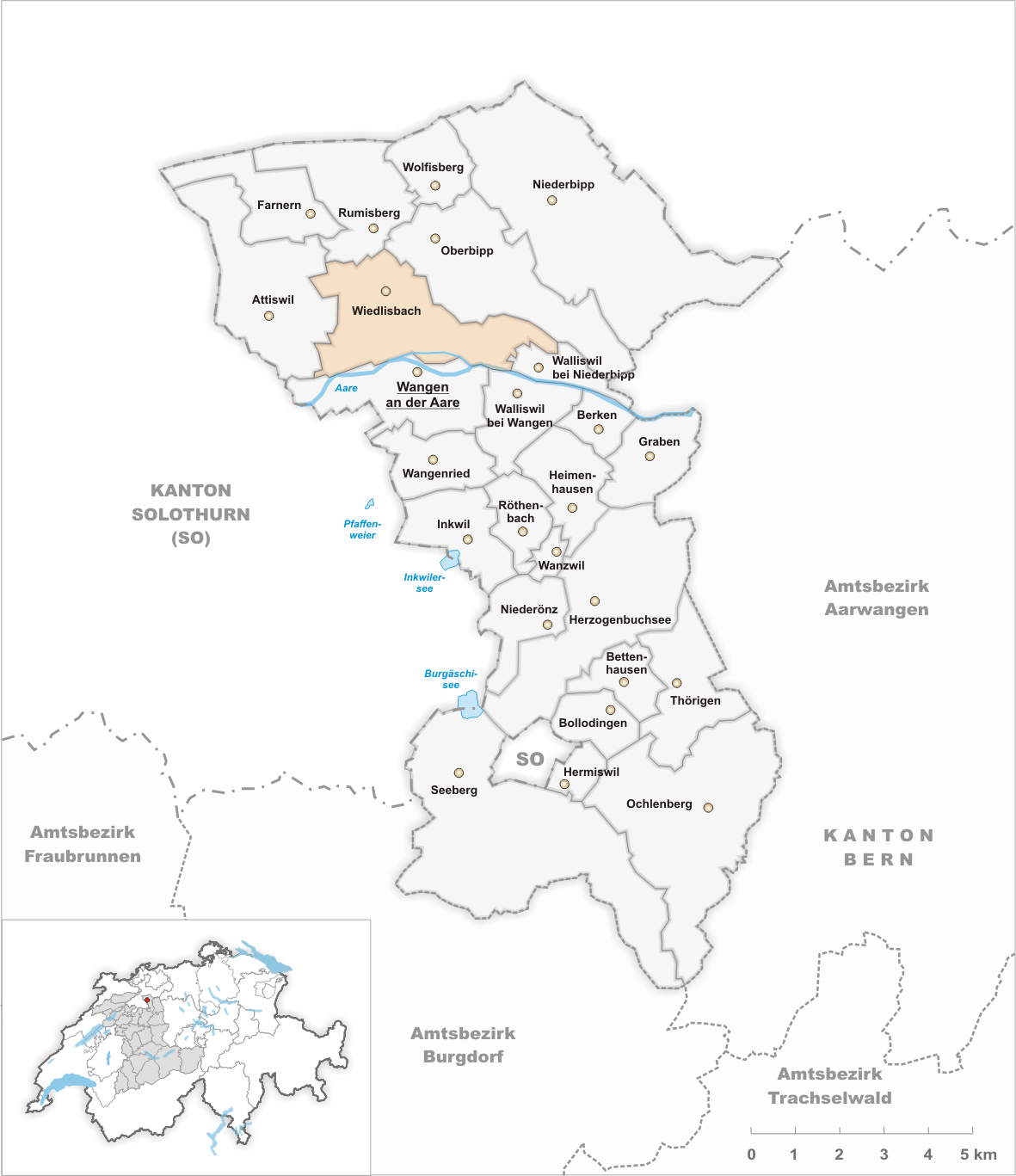 Municipality Wiedlisbach